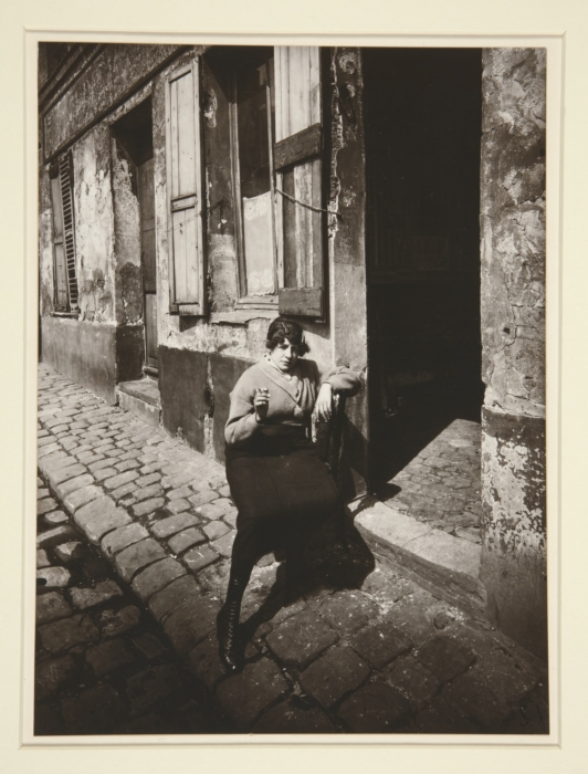 "La Villette, fille publique faisant le quart, 19e. Avril 1921 (La Villette, Streetwalker Waiting for a Client, 19th arrondissement, April 1921)," by the French photographer Eugène Atget. Gold chloride toned print. 9 3/16 in. x 6 13/16 in. Yale University Art Gallery, gift of Russell Lynes, B.A. 1932. Courtesy of Yale University, New Haven, Conn.